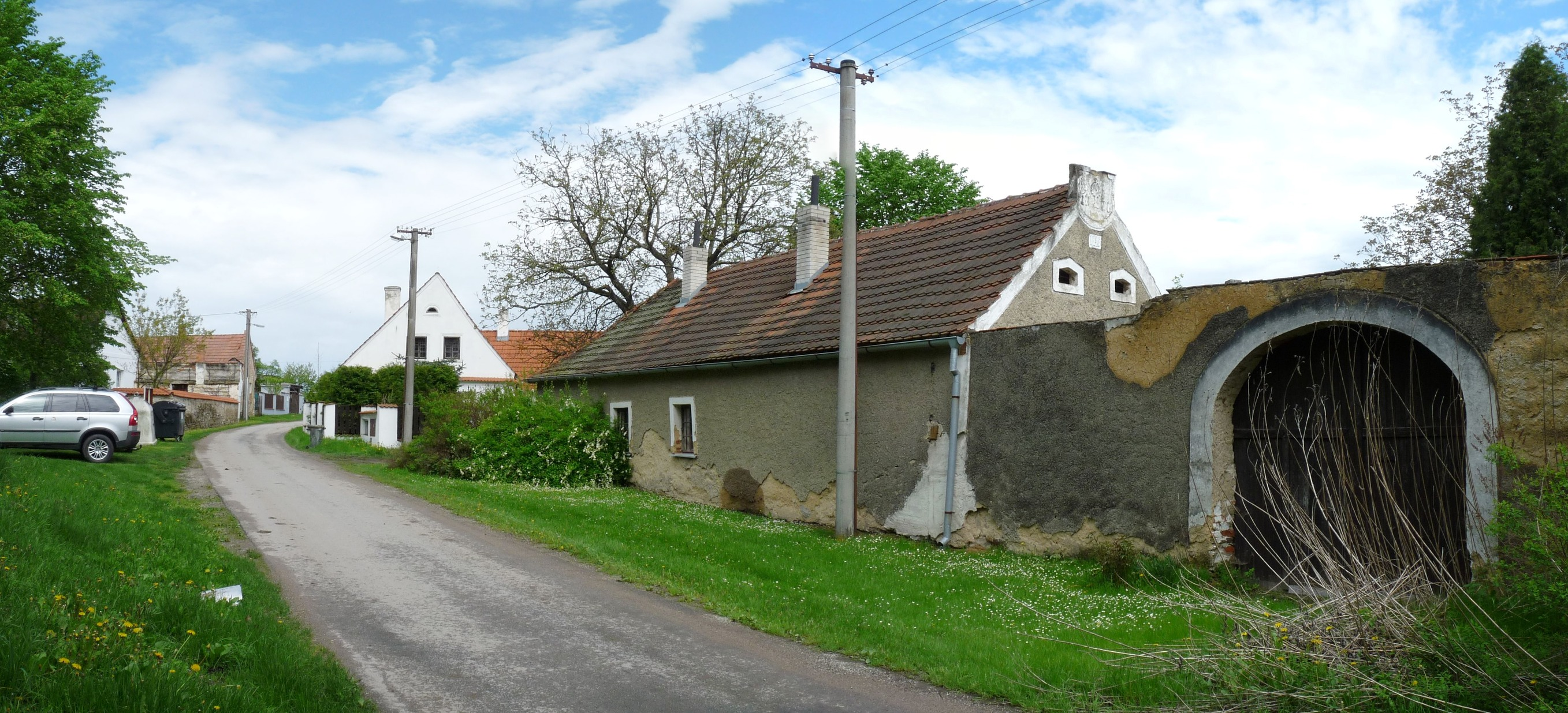 House No 6 in the village of Opalice, České Budějovice District, South Bohemian Region, Czech Republic.